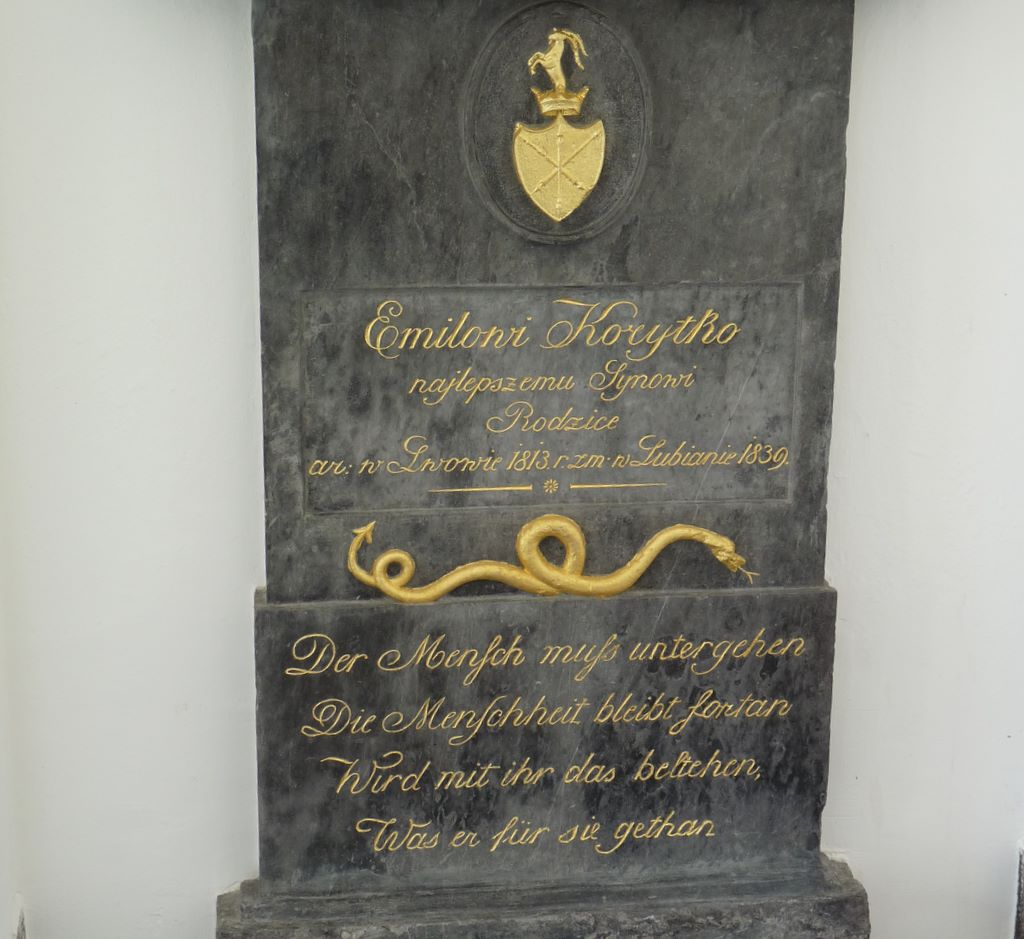 Emil Korytko, tombstone in Navje, Ljubljana. Unveiled at the end of May 1839. It was probably designed by Matevž Langus. The relief of the family coat of arms. The verses in German have been written by France Prešeren; the translation: "A man must die, but the humanity remains and everything that they have done for it lives forward with it."